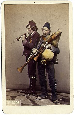 Giorgio Sommer (1834-1914), Zampogna (bagpipes) players. Hand-tinted photograph. Catalogue # 2796.